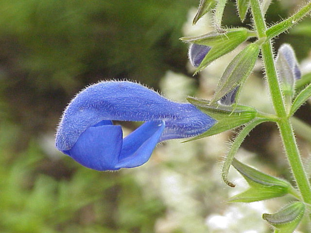 Species: Salvia patens Family: Lamiaceae * Image No. 2